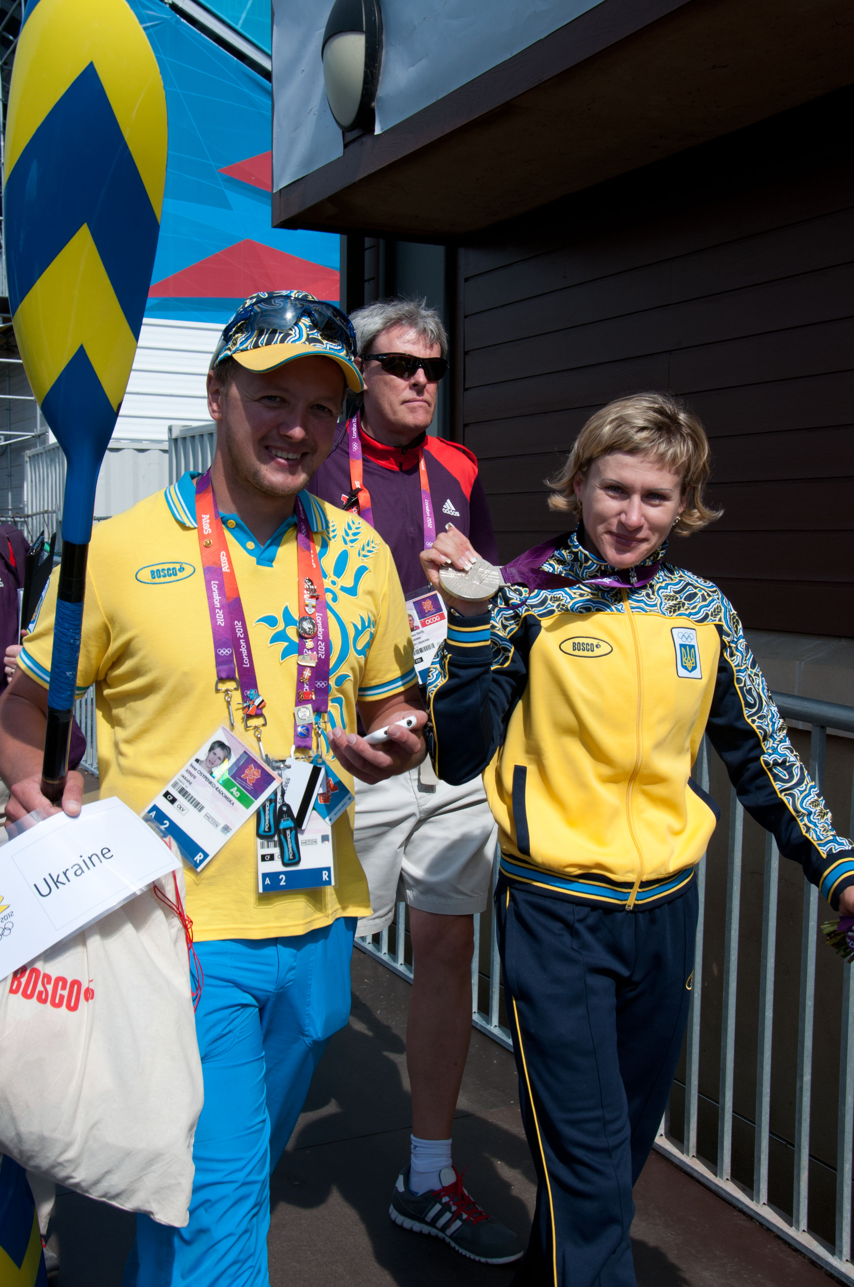 Inna Osypenko-Radomska - Ukraine - Silver Medalist K1 200m